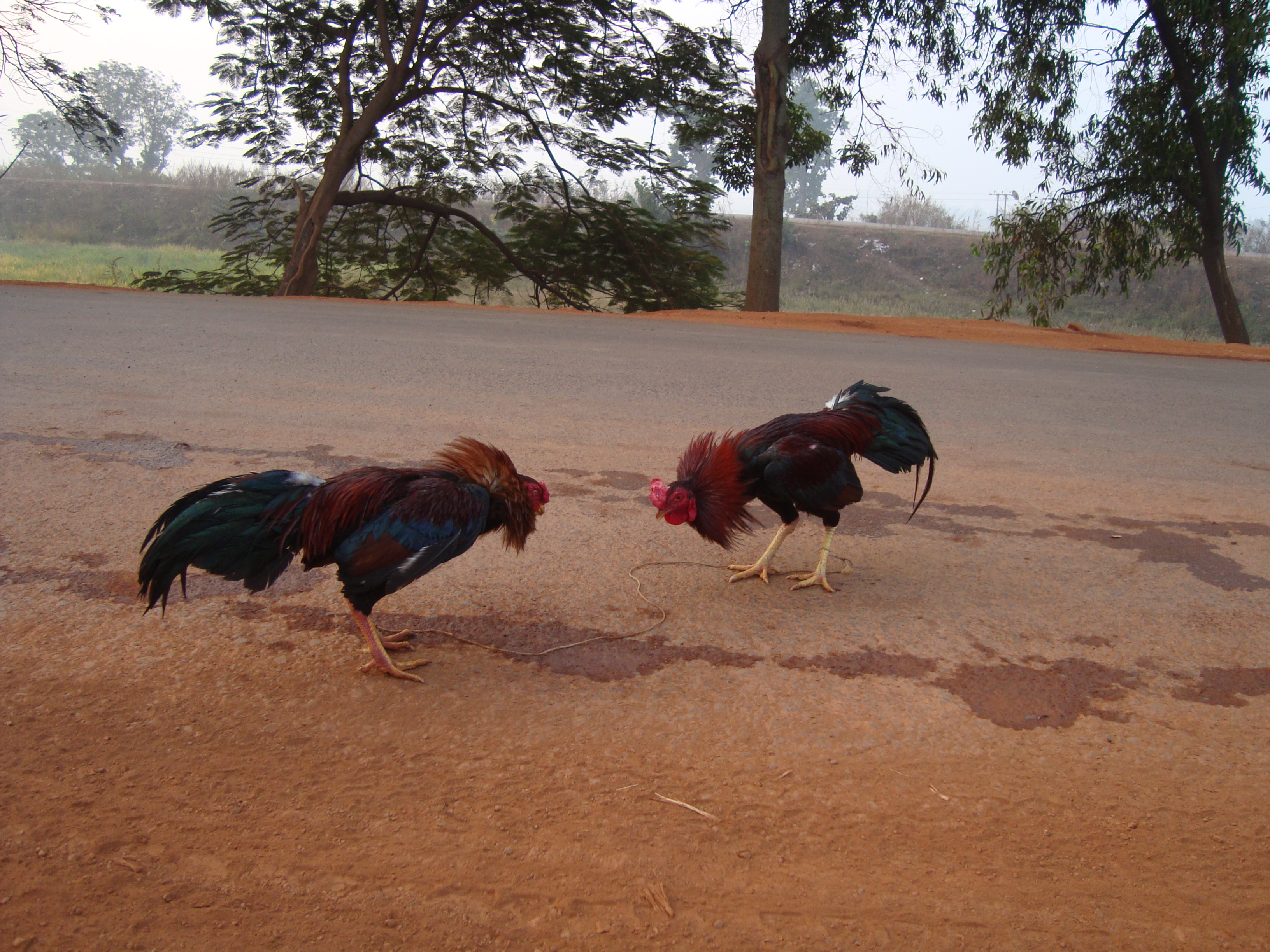 Cockfight is a widely popular sporting event in Orissa, Jharkhand, Chhatisgarh states of India. Cockfight is even played by two different groups of People. This picture is taken at Barakot, Sundargarh, Orissa.